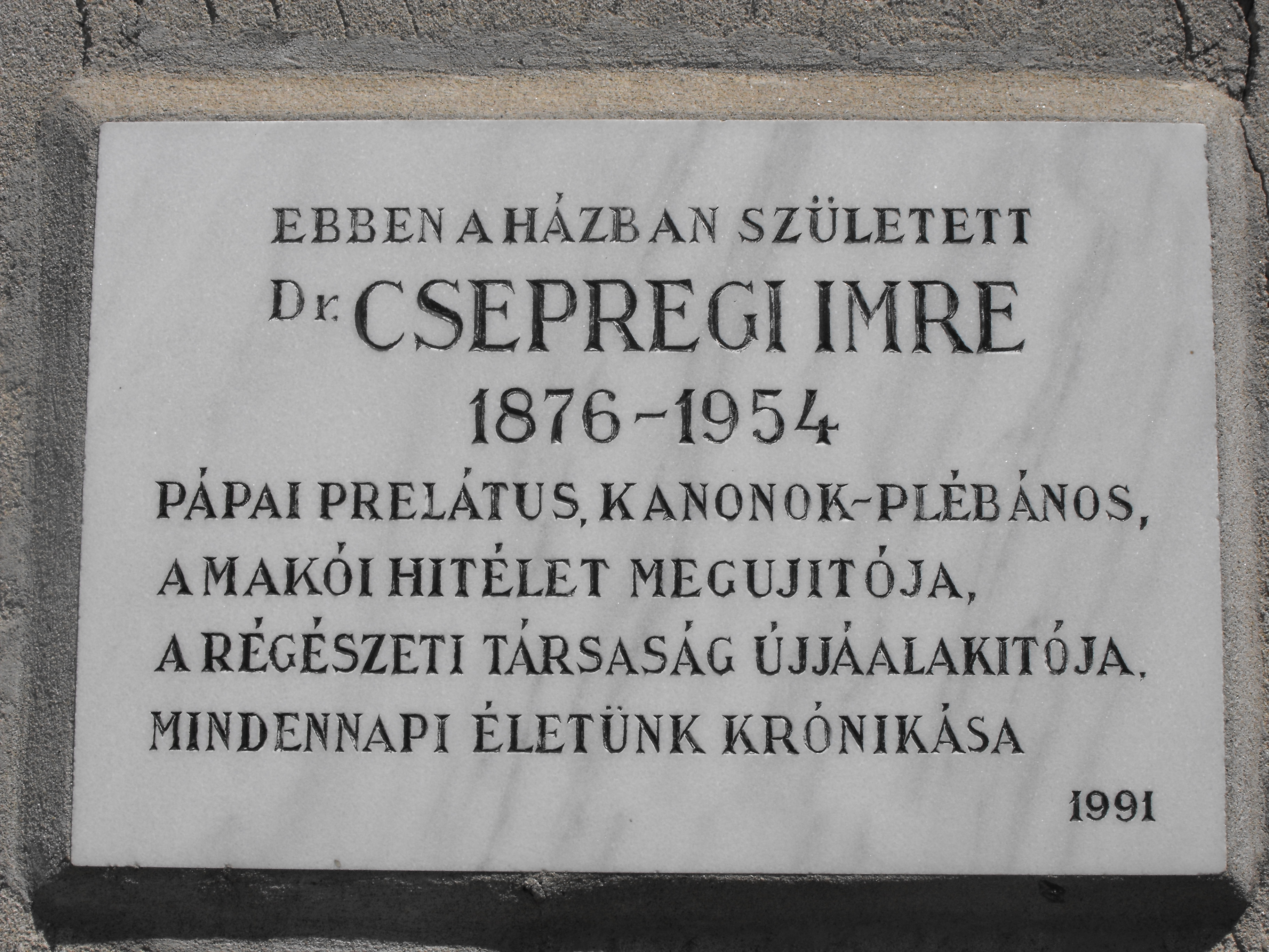 Memorial tablet of Imre Csepregi, parish priest, papal groom, judge of the Holy See in Makó, Hungary.